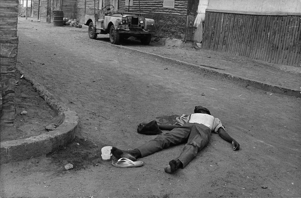 A man in Djibouti is lying dead in the road with nobody around and nobody tried to help the man.